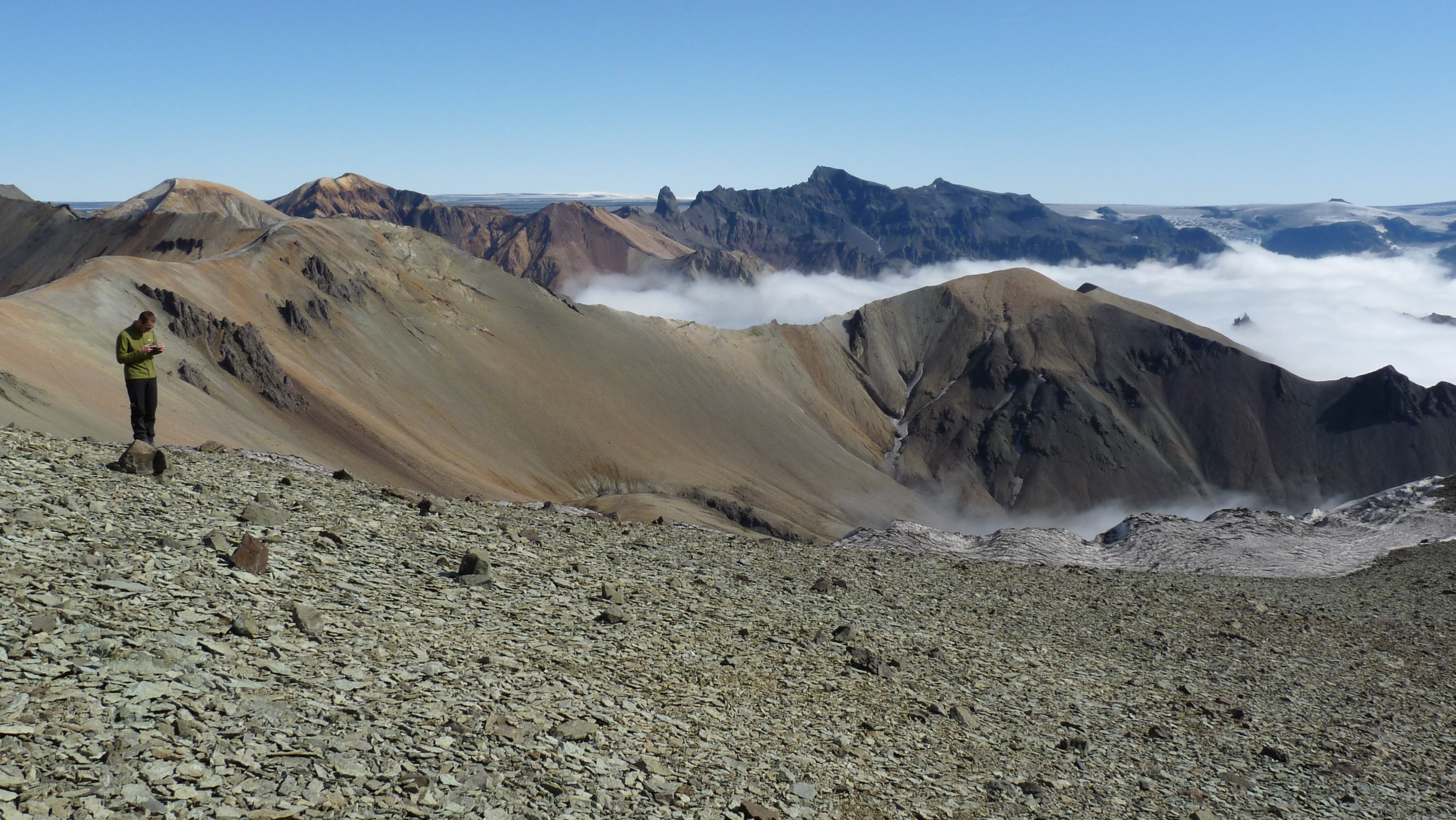 Skaftafell National Park, Iceland [2011]